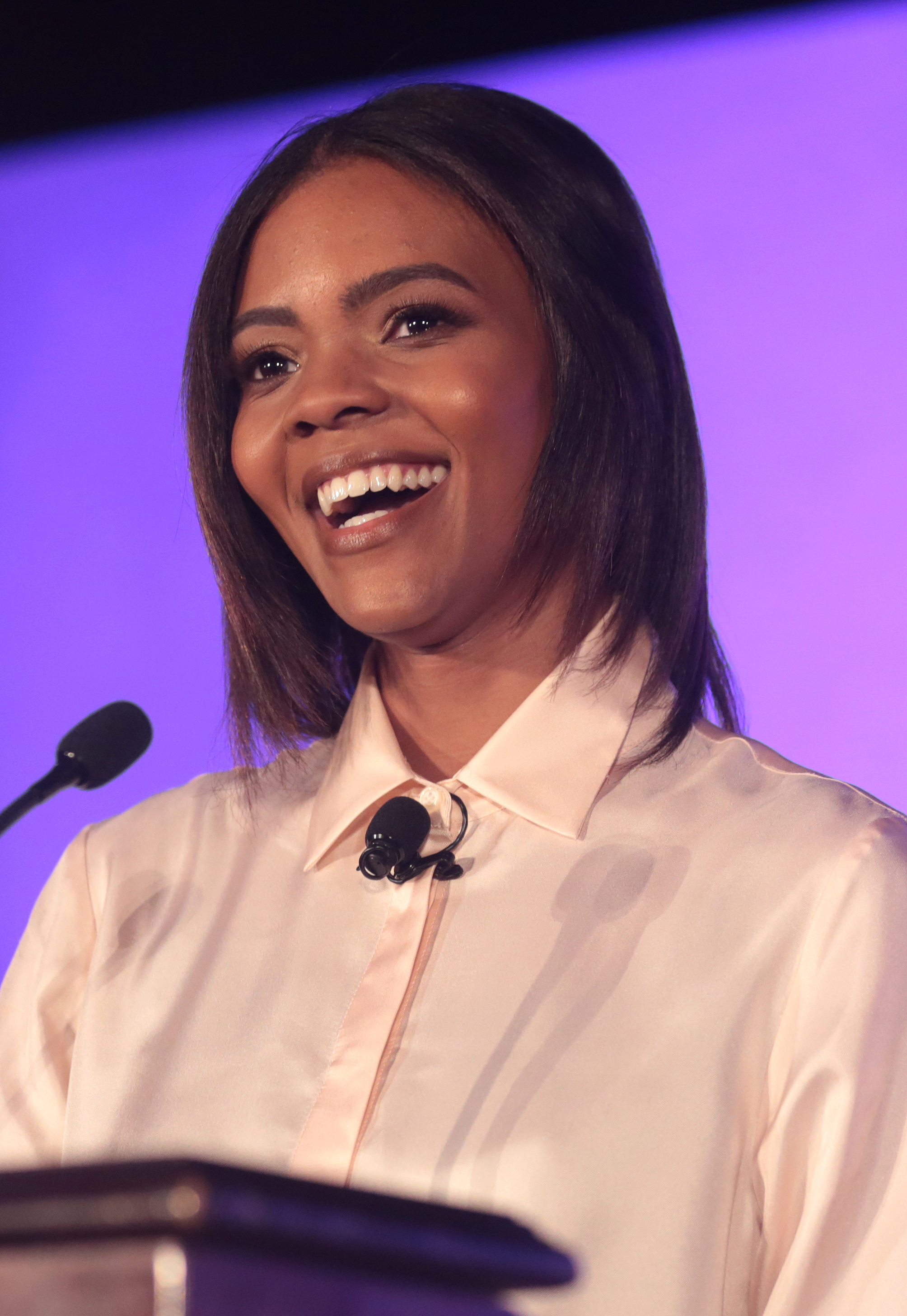 Candace Owens speaking at an event in Dallas, Texas.